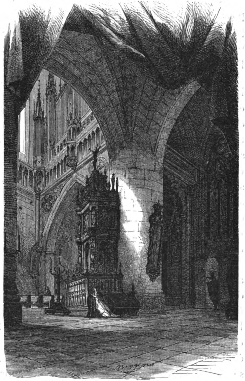 Margeurite praying in the cathedral (Act 4, scene 3) in the opera Faust by Gounod, set design by Charles-Antoine Cambon (possibly for the 1869 production at the Paris Opera).